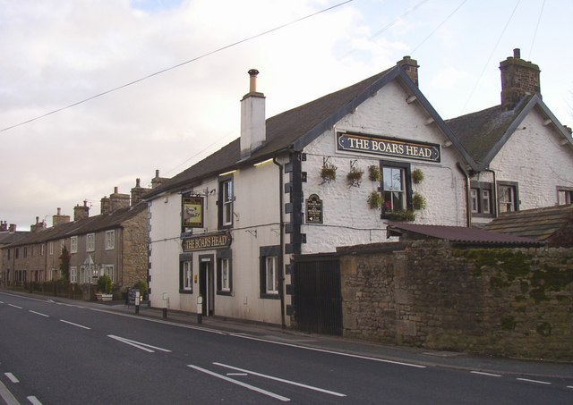 The Boar's Head Inn, Long Preston, North Yorkshire, England.